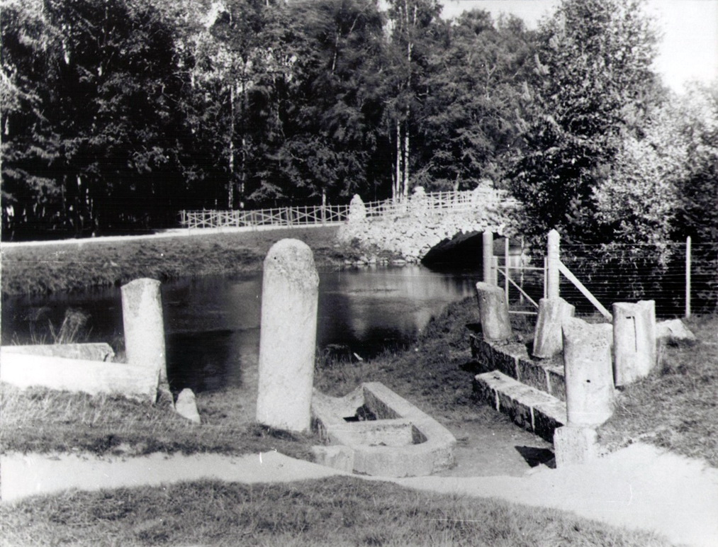 a water basin and ruined bridge, 1900s